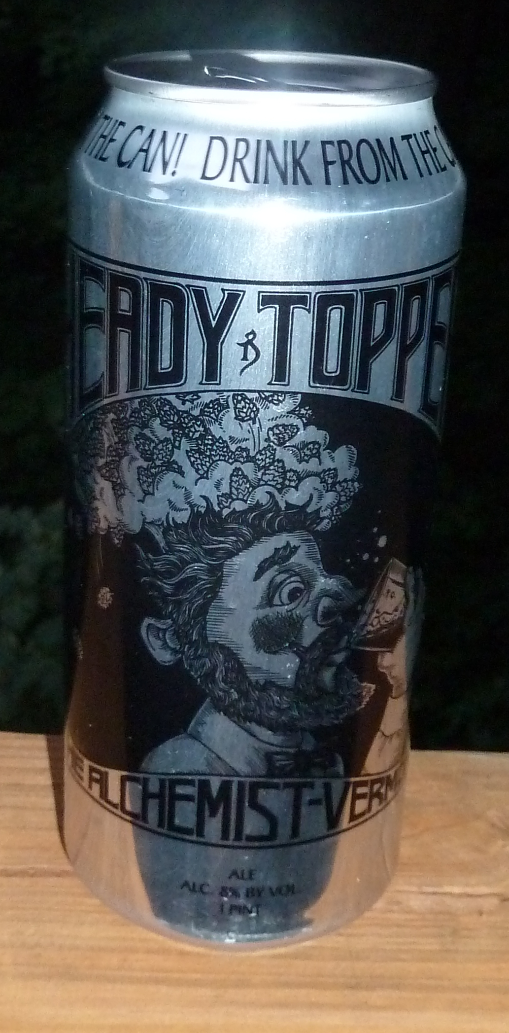 16 oz can of Heady Topper